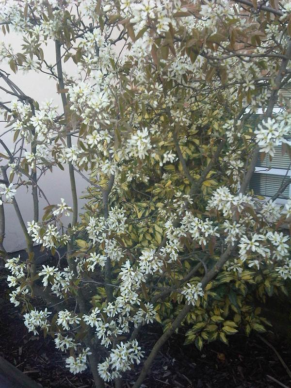 Juneberry (Amelanchier lamarckii) in Kew Gardens, England.